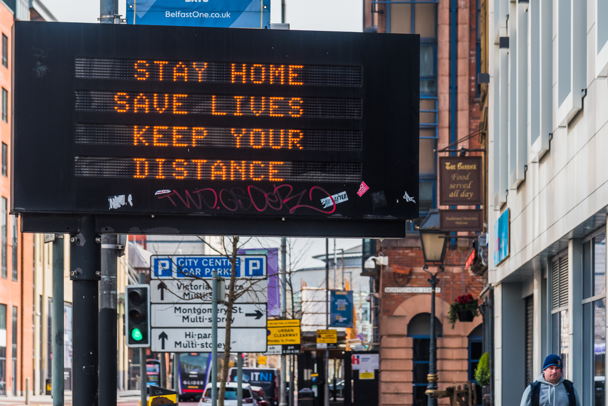 Electronic Display Sign normally used for traffic management displays COVID19-related advice on an almost deserted Chichester Street in Belfast CIty Centre.